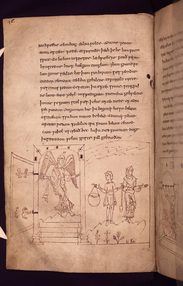 'The Cædmon Manuscript': parts of Genesis, Exodus and Daniel in Old English verse, illustrated with Anglo-Saxon drawings, c. A.D. 1000.; 46